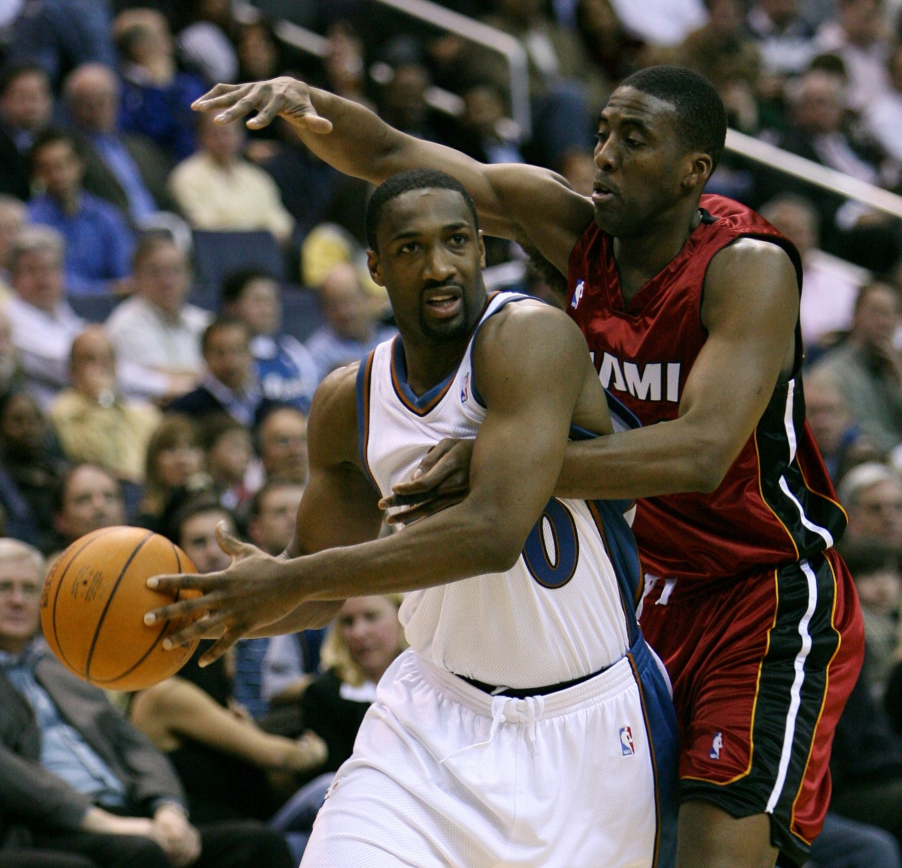 Gilbert Arenas of the Washington Wizards NBA team drives with the basketball while Eddie Jones of the Miami Heat defends.